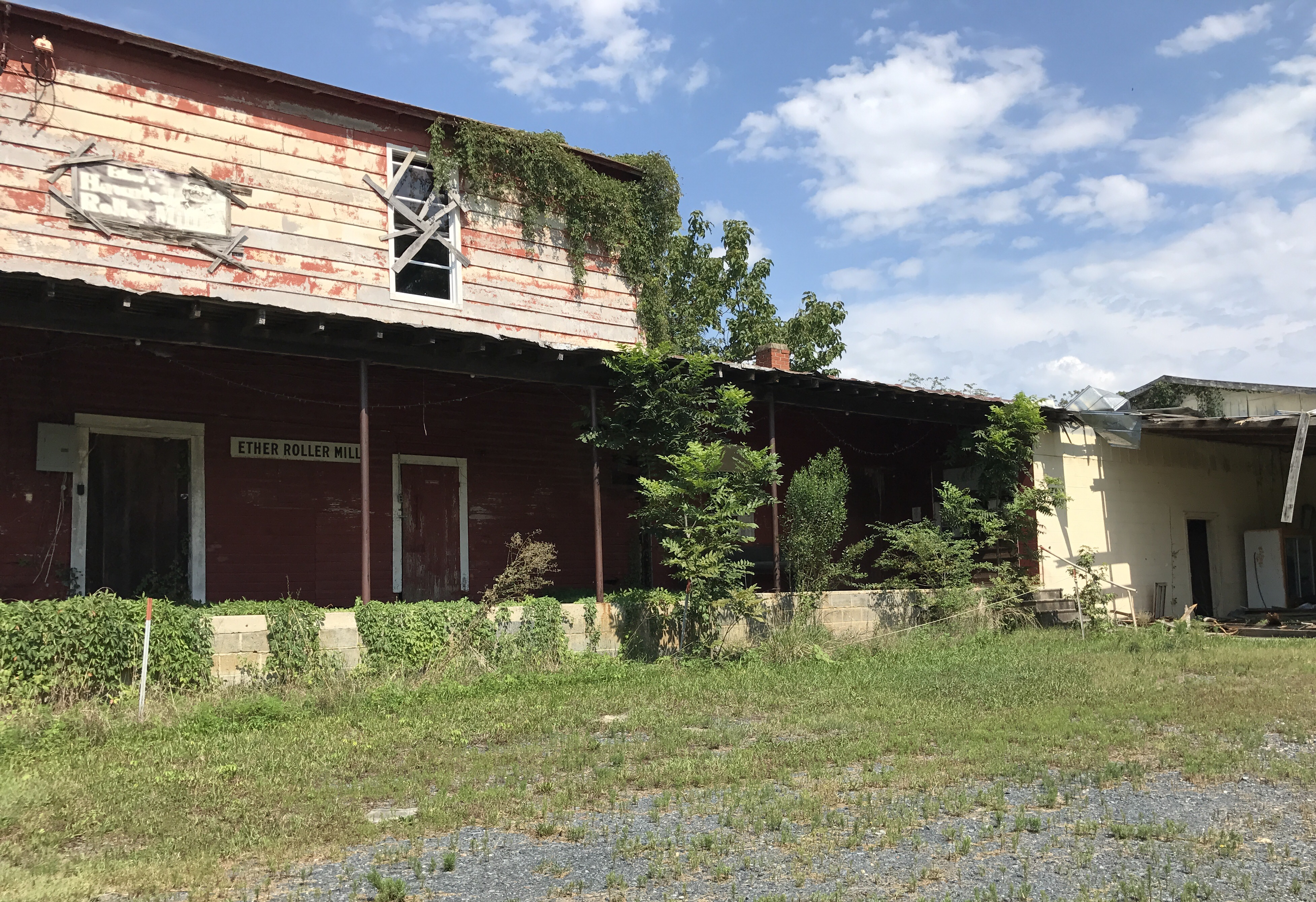 Former Roller Mill in Ether, used annually as a haunted house attraction